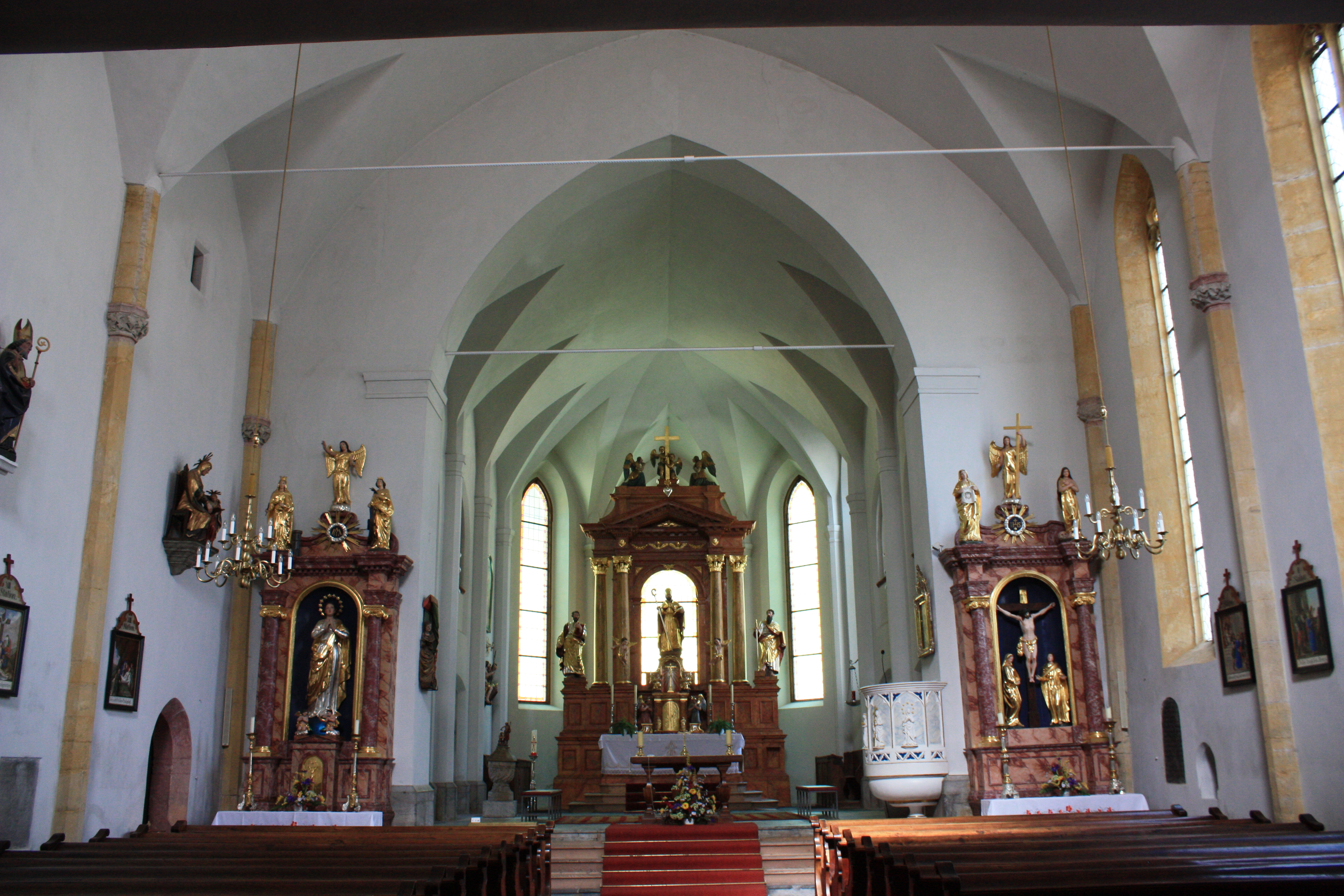 Interior of the the parish church in Hüttenberg in the community of Hüttenberg